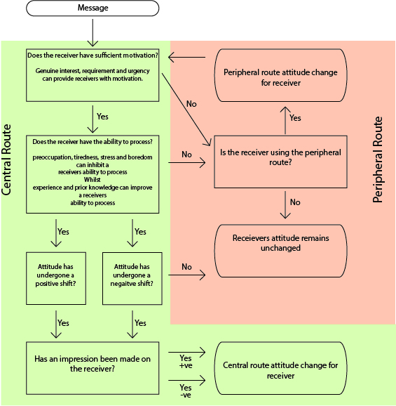 Elaboration likelihood model diagram.